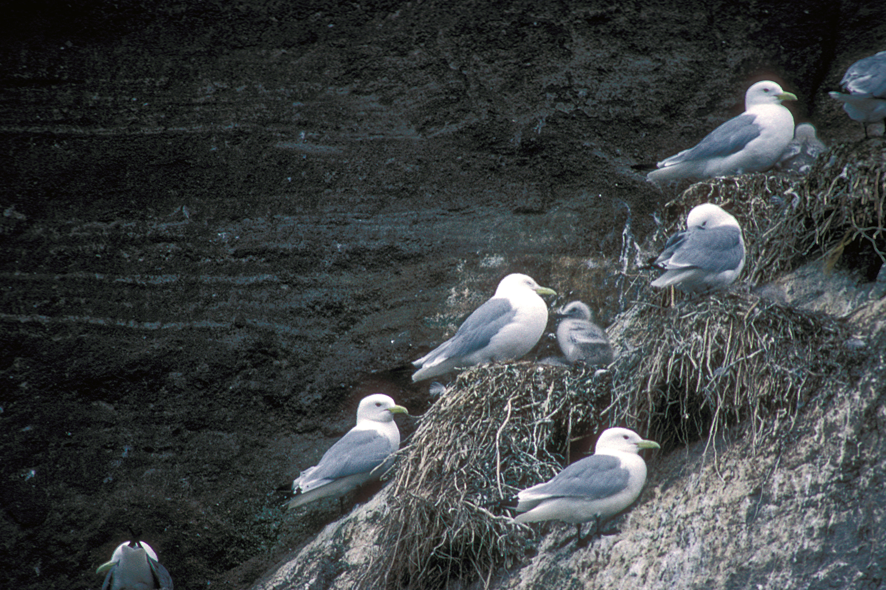 Black-legged Kittiwakes and Young at Nest. (Rissa tridactyla)